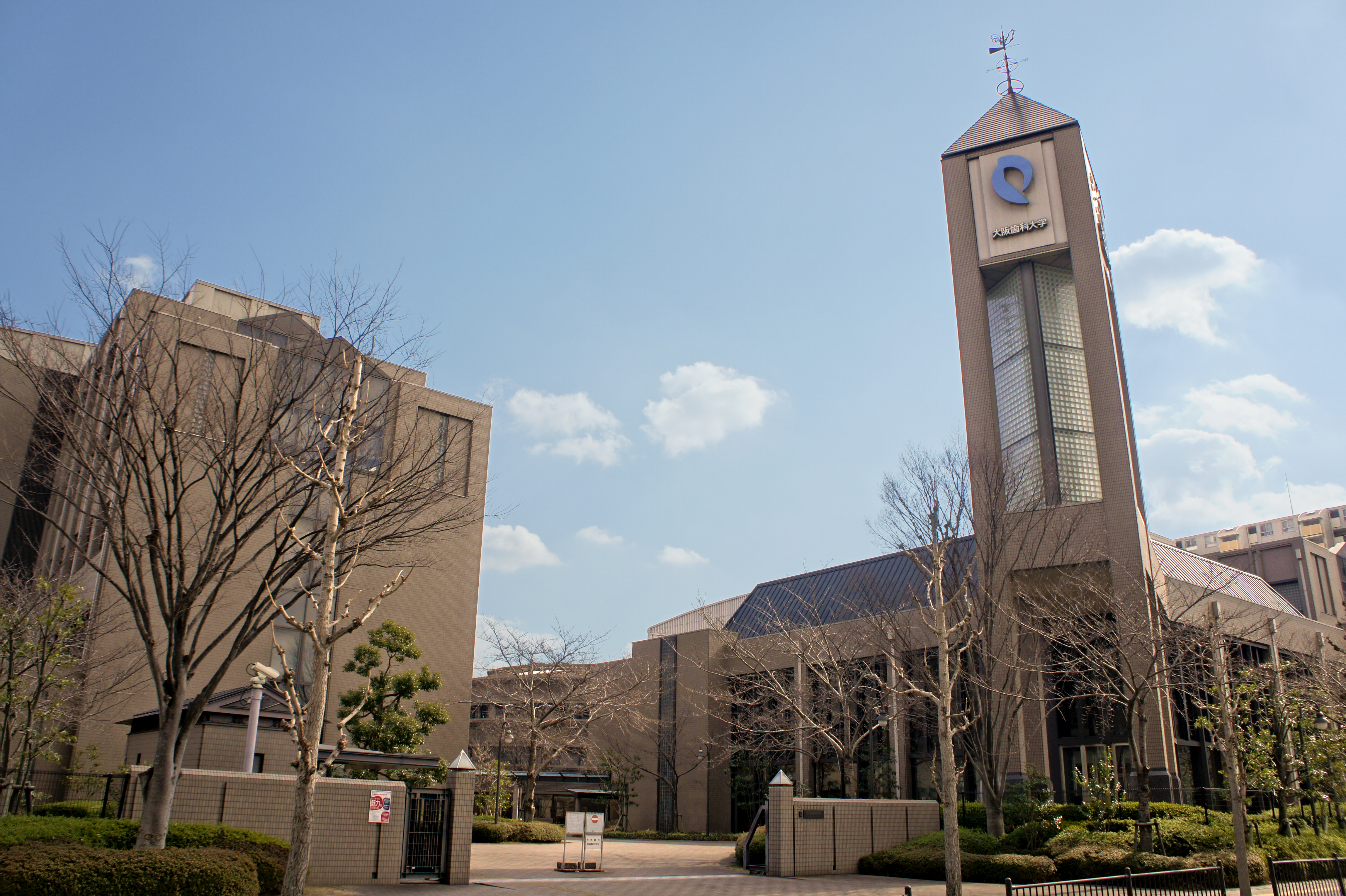 Osaka Dental University, 8-1 Hanazonocho Hirakata-City Osaka JAPAN.